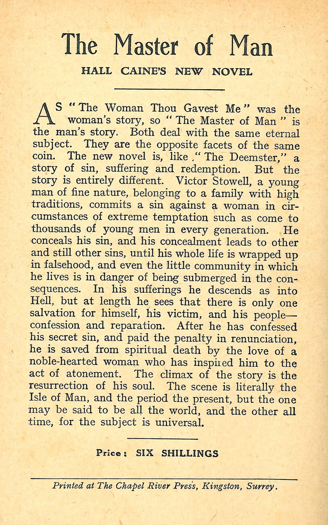 An advert for of Hall Caine's novel 'The Master of Man'